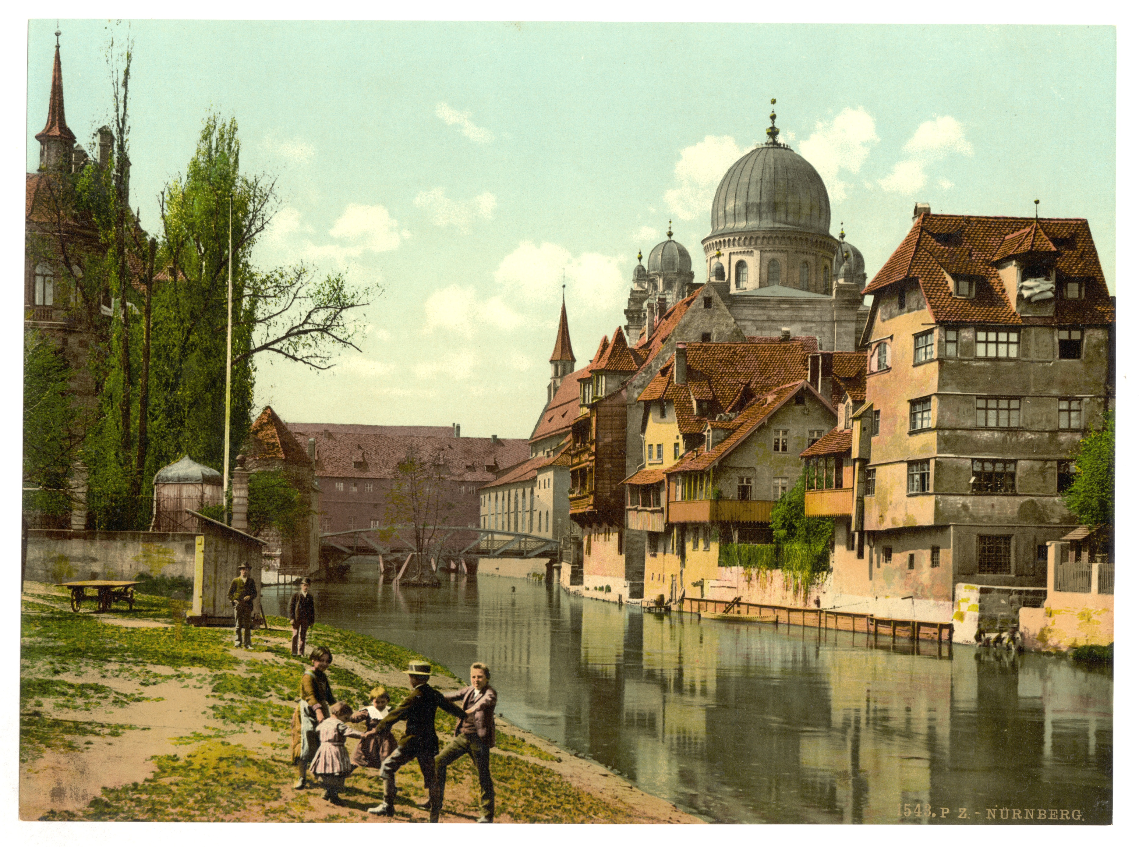 Title from the Detroit Publishing Co., catalogue J-foreign section. Detroit, Mich. : Detroit Photographic Company, 1905.; Forms part of: Views of Germany in the Photochrom print collection.; Print no. "1543".